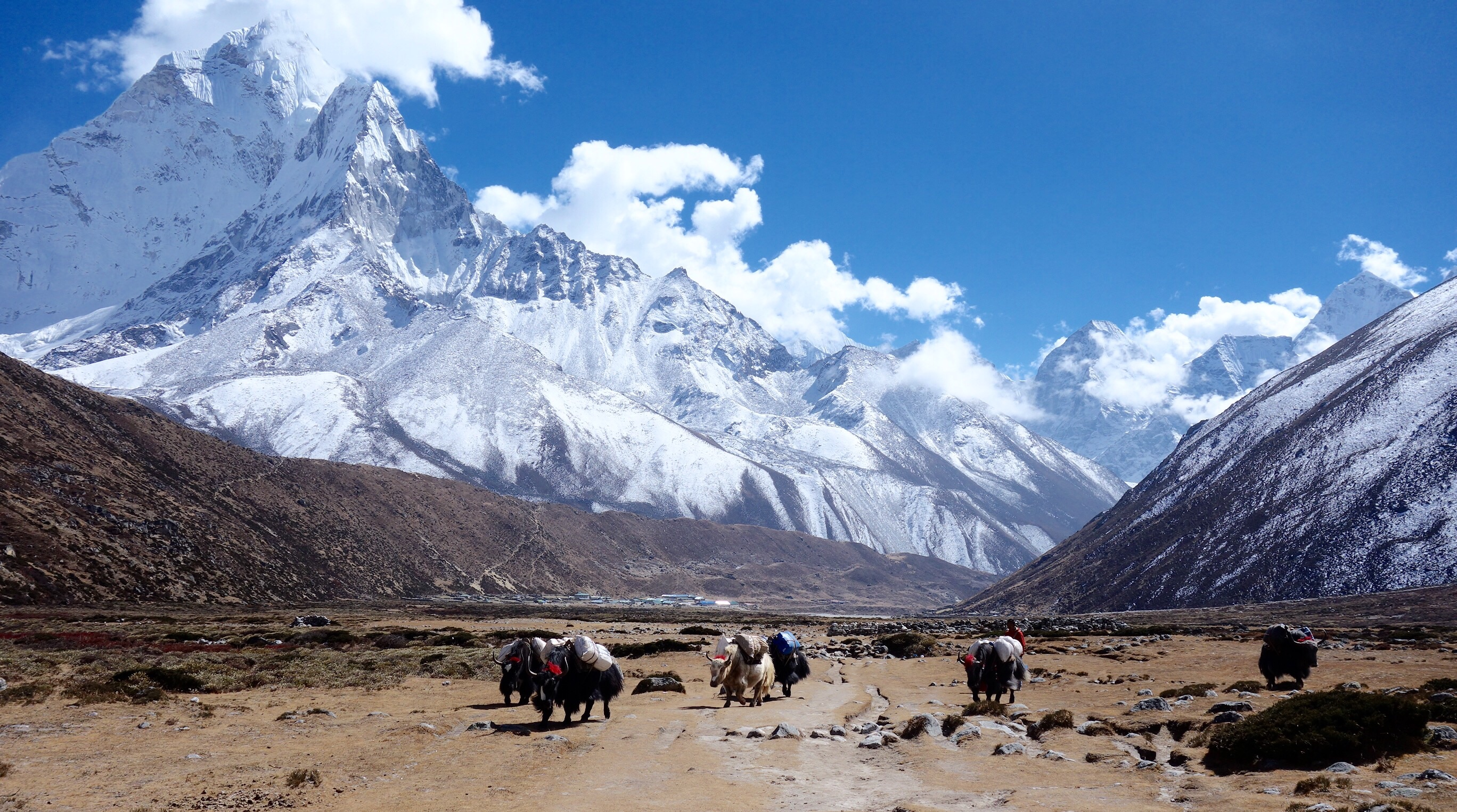 Yaks passing by Pheriche in the Everest region, Nepal.नेपाली: सगरमाथा क्षेत्रमा रहेका याकहरू मैथिली: सगरमाथा क्षेत्रमे रहल याकसभ